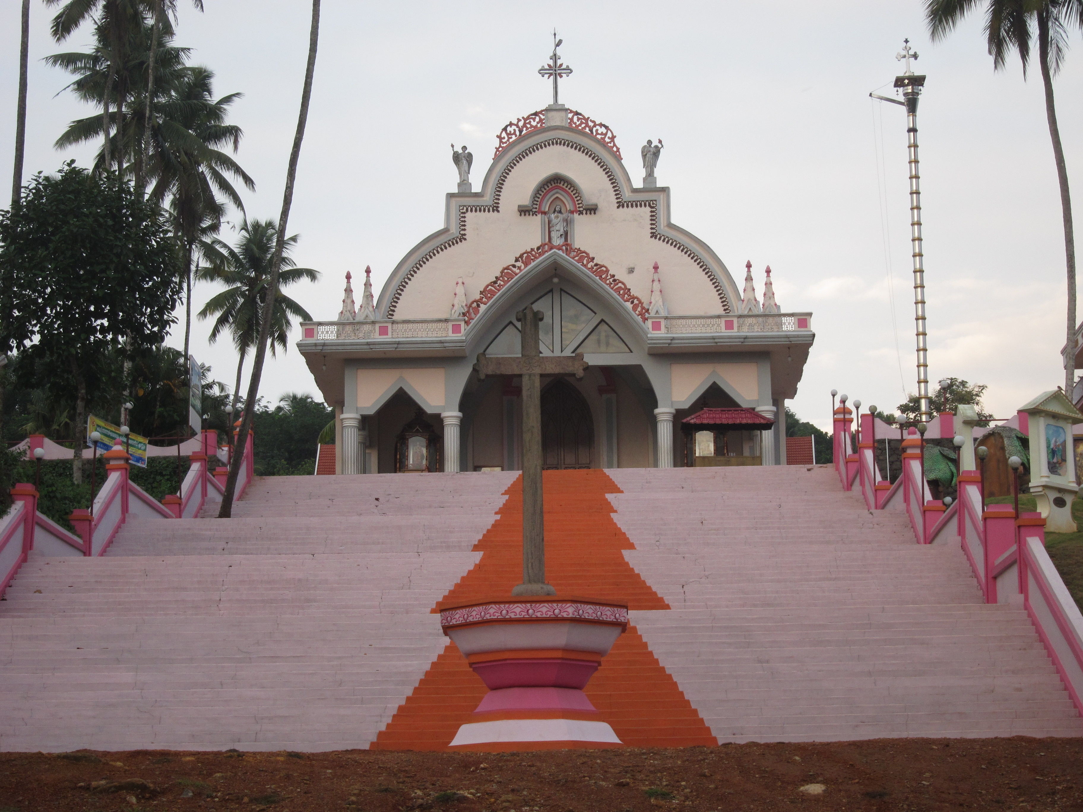 Sacred Heart Knanaya Catholic Town Church, Monippally, Kotayam Arch-Diocese, Kottayam, സേക്രട്ട് ഹാർട്ട് ക്നാനായ കാത്തലിക് ടൗൺ ചർച്ച്, മോനിപ്പള്ളി, കോട്ടയം അതിരൂപത, കോട്ടയം ജില്ല